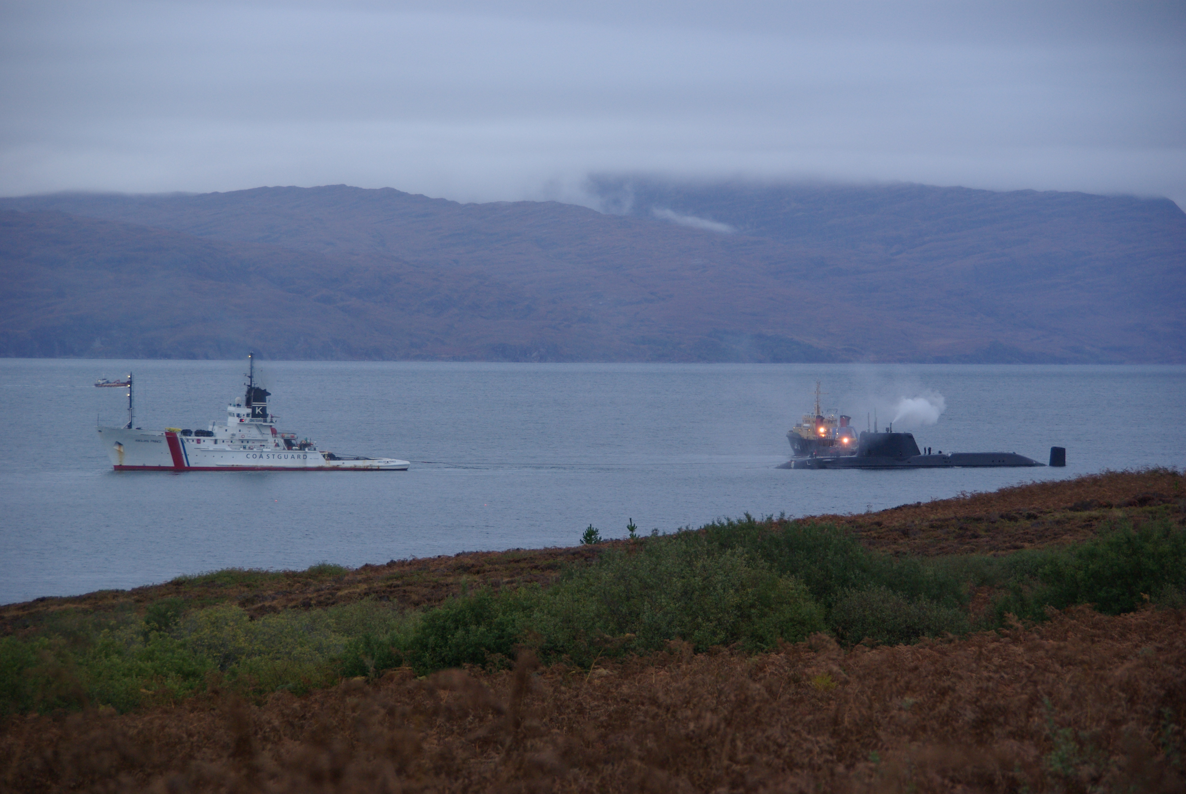 Emergency Tow Vessel (ETV) Anglian Prince preparing to pull grounded submarine HMS Astute into deeper waters